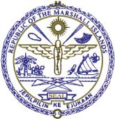 Coat of Arms of the Marshall Islands